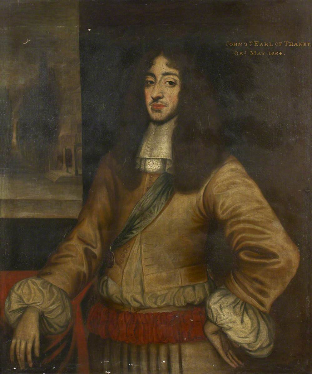 Wright, John Michael; James II (1633-1701) (or John Tufton, 1609-1664, 2nd Earl of Thanet); Lakeland Arts Trust; Held by the Abbot Hall Art Gallery